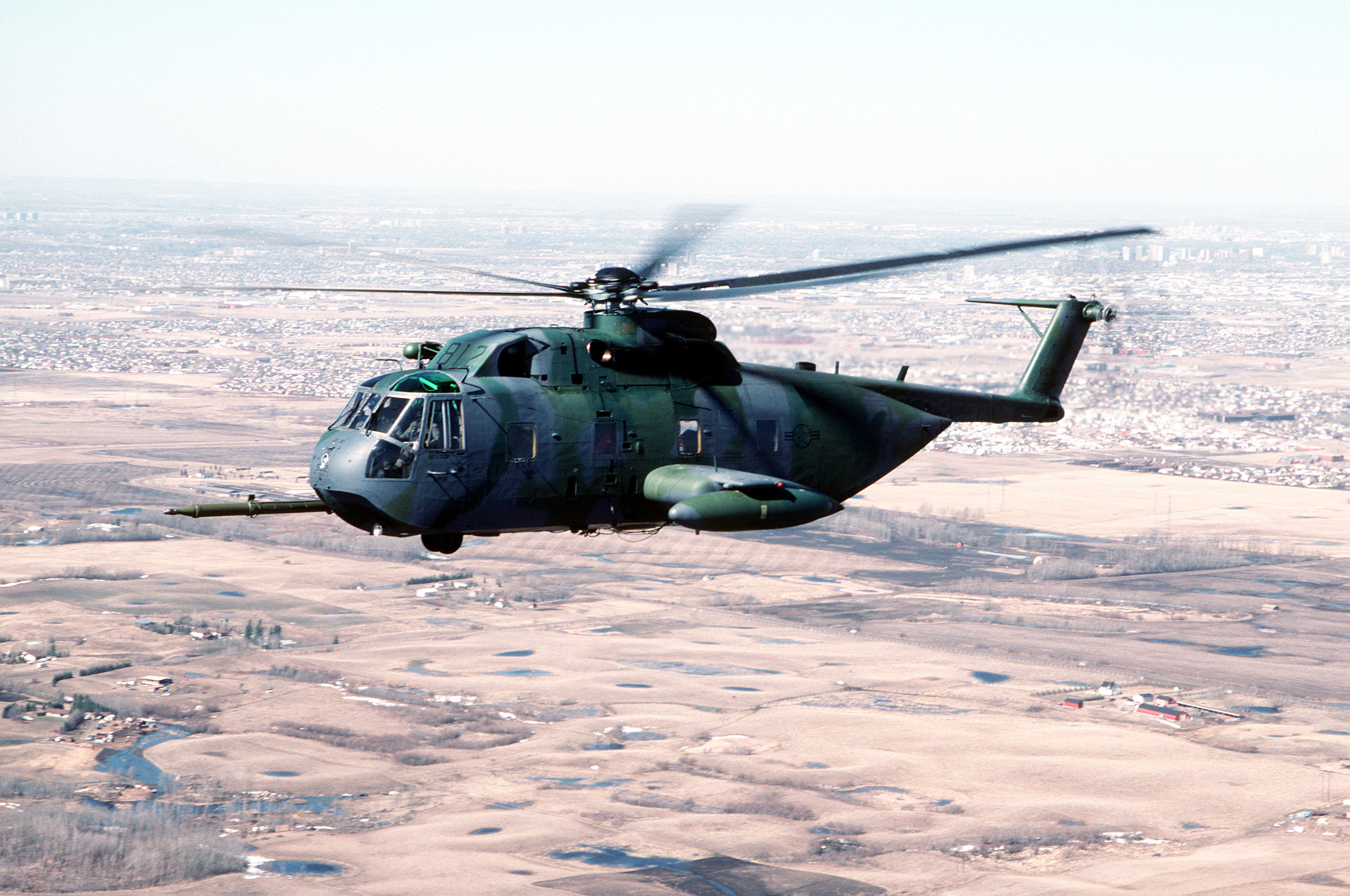 A U.S. Air Force 71st Air Rescue Squadron (71st ARS) Sikorsky HH-3E Jolly Green Giant helicopter (s/n 69-5812) flies over Canada en route from Alaska to the Aircraft Maintenance and Regeneration Center at Davis-Monthan Air Force Base, Arizona (USA). The helicopters from the 71st ARS were retired in preparation for the squadron's deactivation on 1 June 1991. The 210th Rescue Squadron, Alaska Air National Guard, took over Alaskan rescue missions. The HH-3E 69-5812 was the last built for the USAF by Sikorsky.